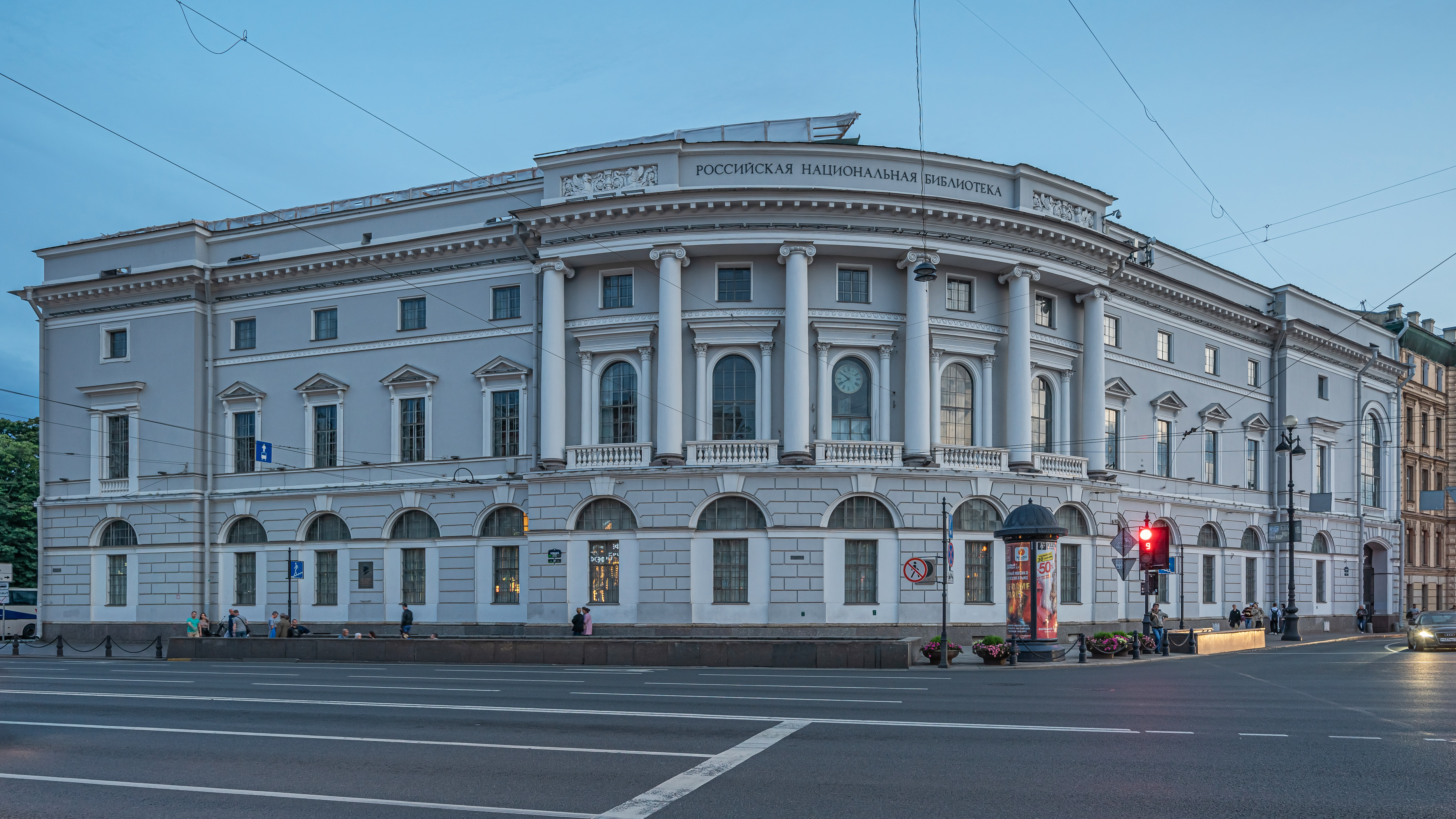 Building of the Russian National Library at Nevsky Prospekt / Sadovaya Street in Saint Petersburg, Russia